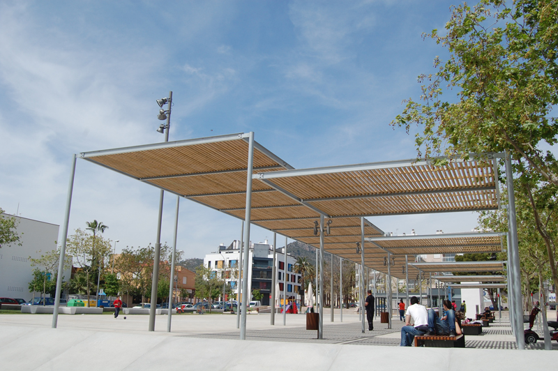 Pergola with steel structure and wood grid in Benicassim, Spain.